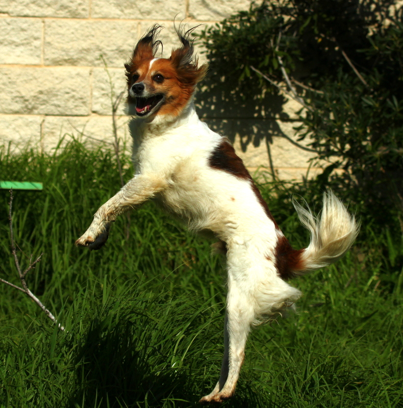 A dog jumping from a stationary position